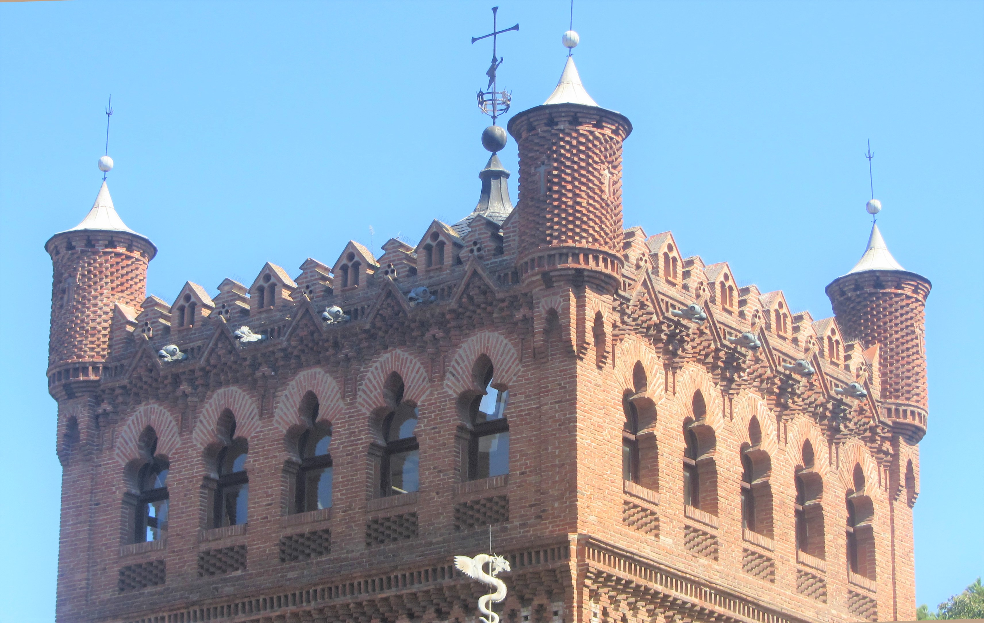 Laredo Palace Tower in Alcalá de Henares (Community of Madrid - Spain). Neogothic-Mudejar building built in 1884.